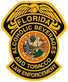 Police patch